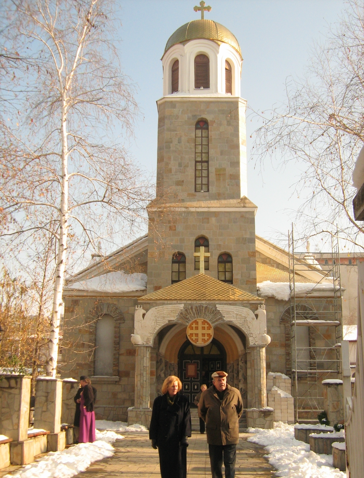 Church St George, Kardzhali, Bulgaria